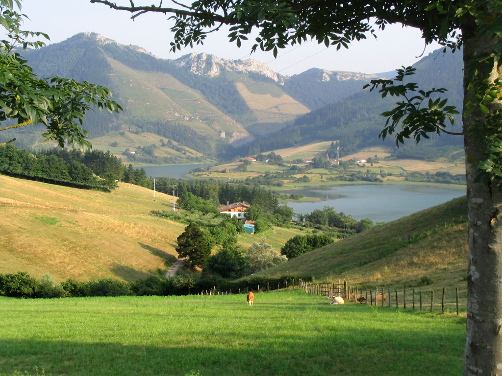 Urkulu reservoir